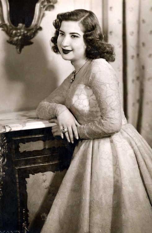 Queen Nariman of Egypt a few days before her wedding to King Farouk in May 1951.